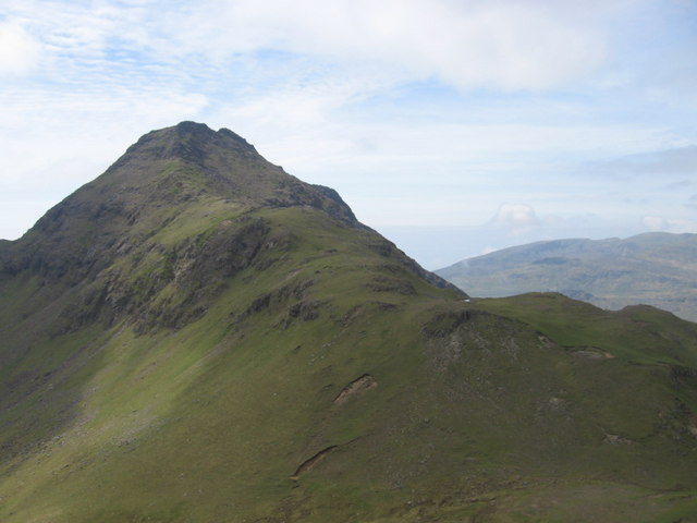 Bealach an Oir to the slopes of Trollaval.